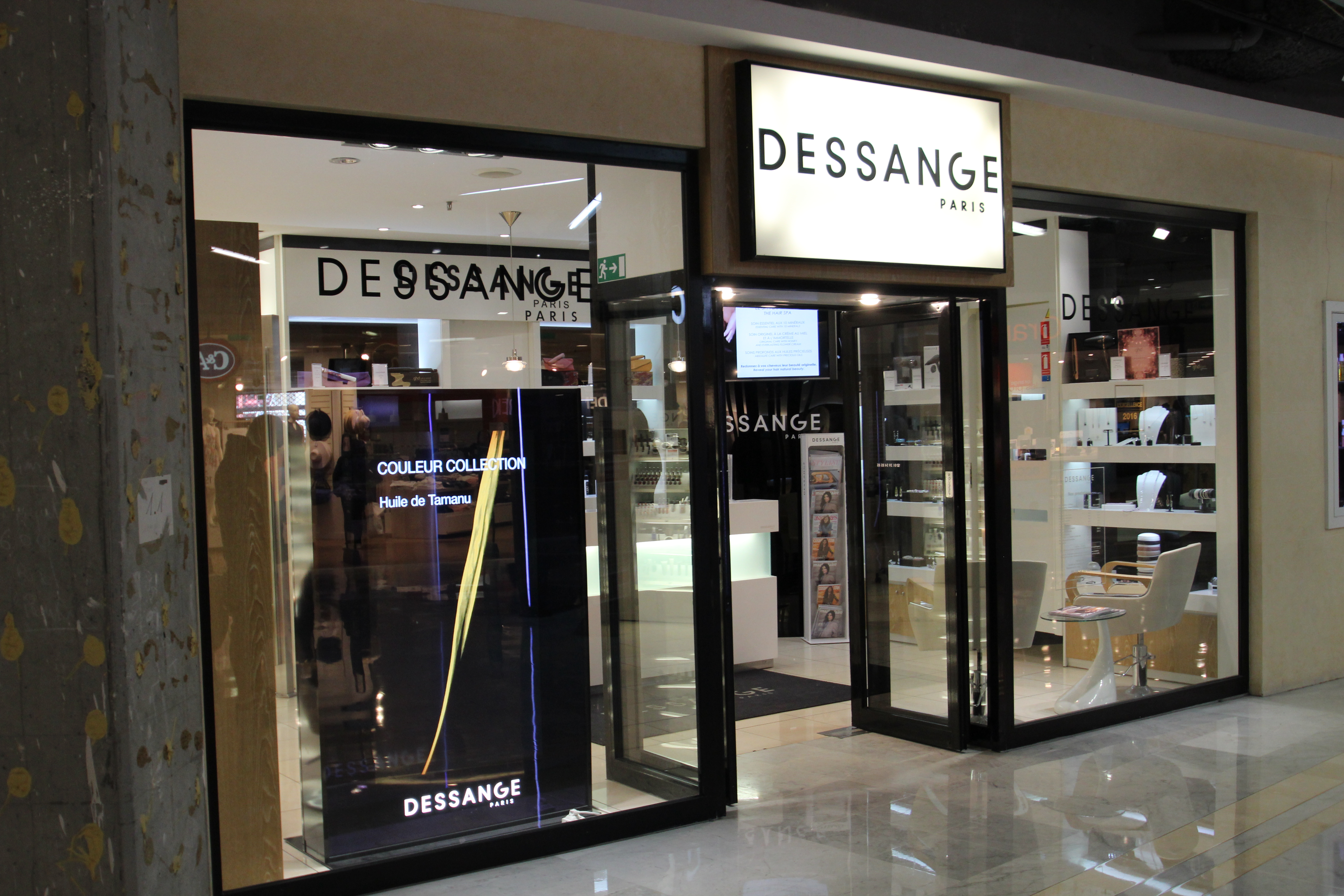 Views from inside Parly 2, a shopping mall in Le Chesnay, France. Object location48° 49′ 16.9″ N, 2° 06′ 53.06″ E